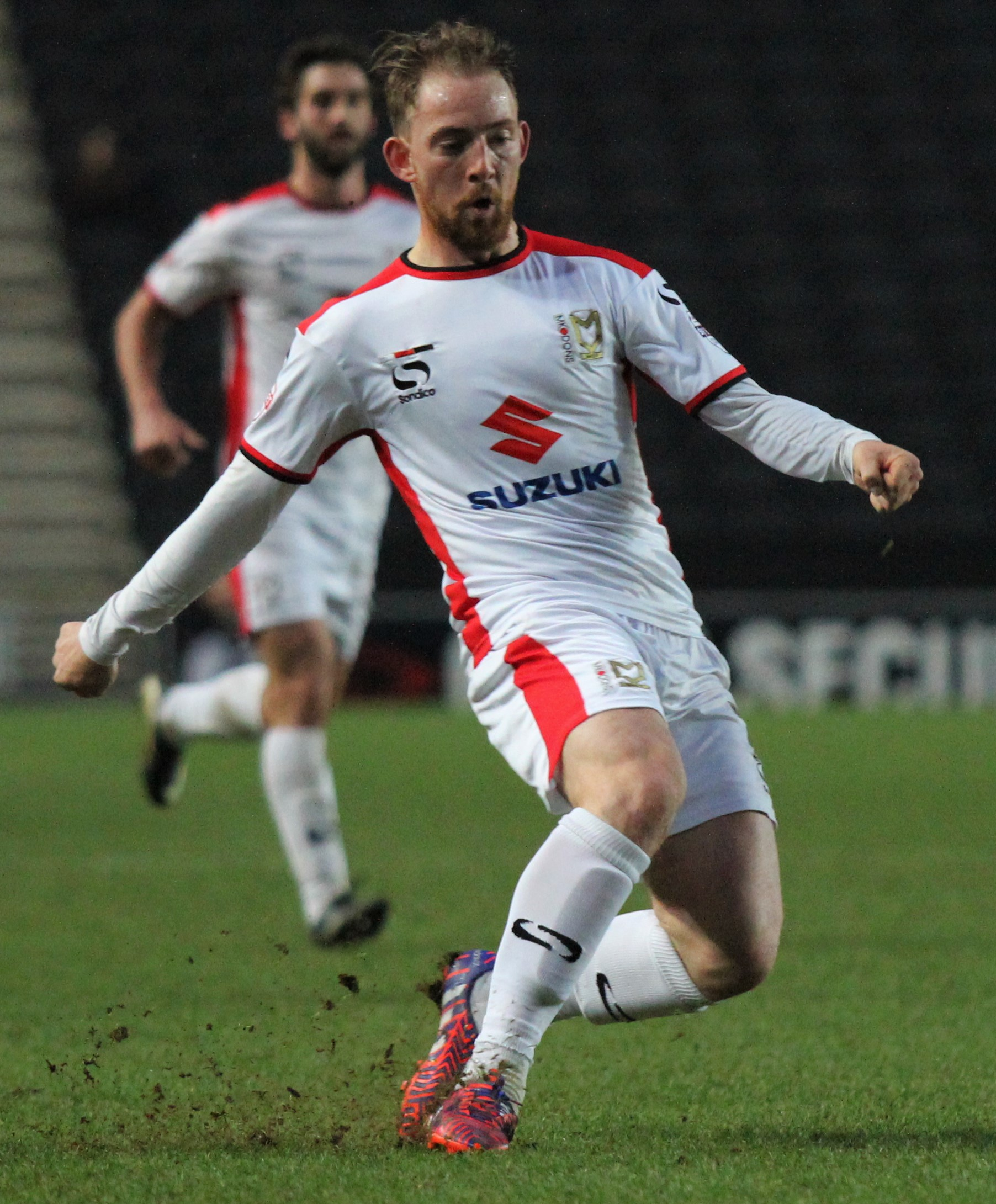 Danny Green of MK Dons attempts to lob the Barnsley goalkeeper from far out during the League 1 meeting at StadiumMK